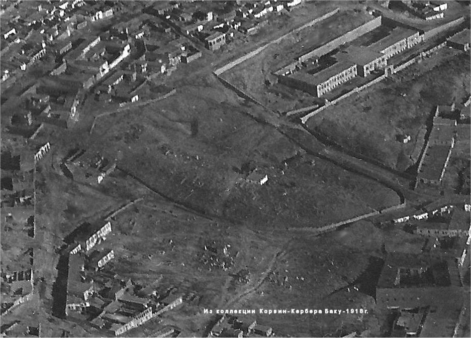 Photos of Chemberekend cemetery in 1918